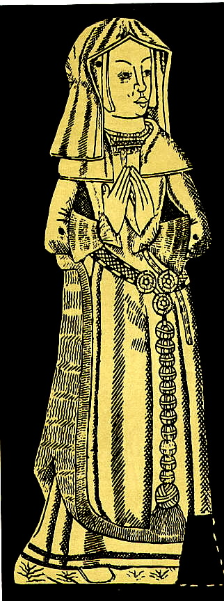 Description: Rubbing of a memorial brass, unknown Tudor lady, wearing a gable headdress and veil. She wears a fur-lined gown over a kirtle with a girdle or belt. There are "... large paternoster beads attached to her decorative belt by a three-rose buckle. This buckle probably symbolizes the three sets of five mysteries in the Rosary devotion" (from Trivick, Henry. The Picture Book of Brasses in Gilt. New York: Charles Scribner's Sons, 1971, via Date: c. 1540